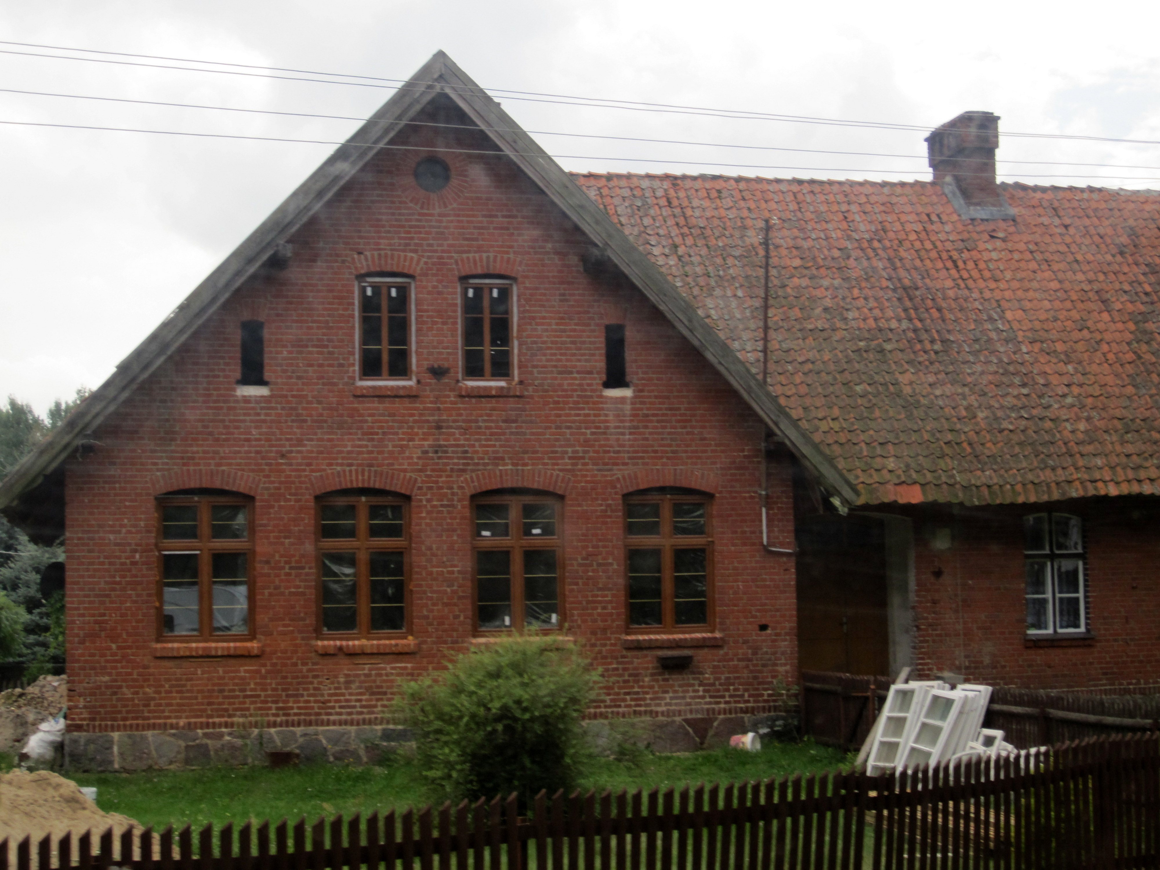 Old school building in Kwiatuszki Wielkie